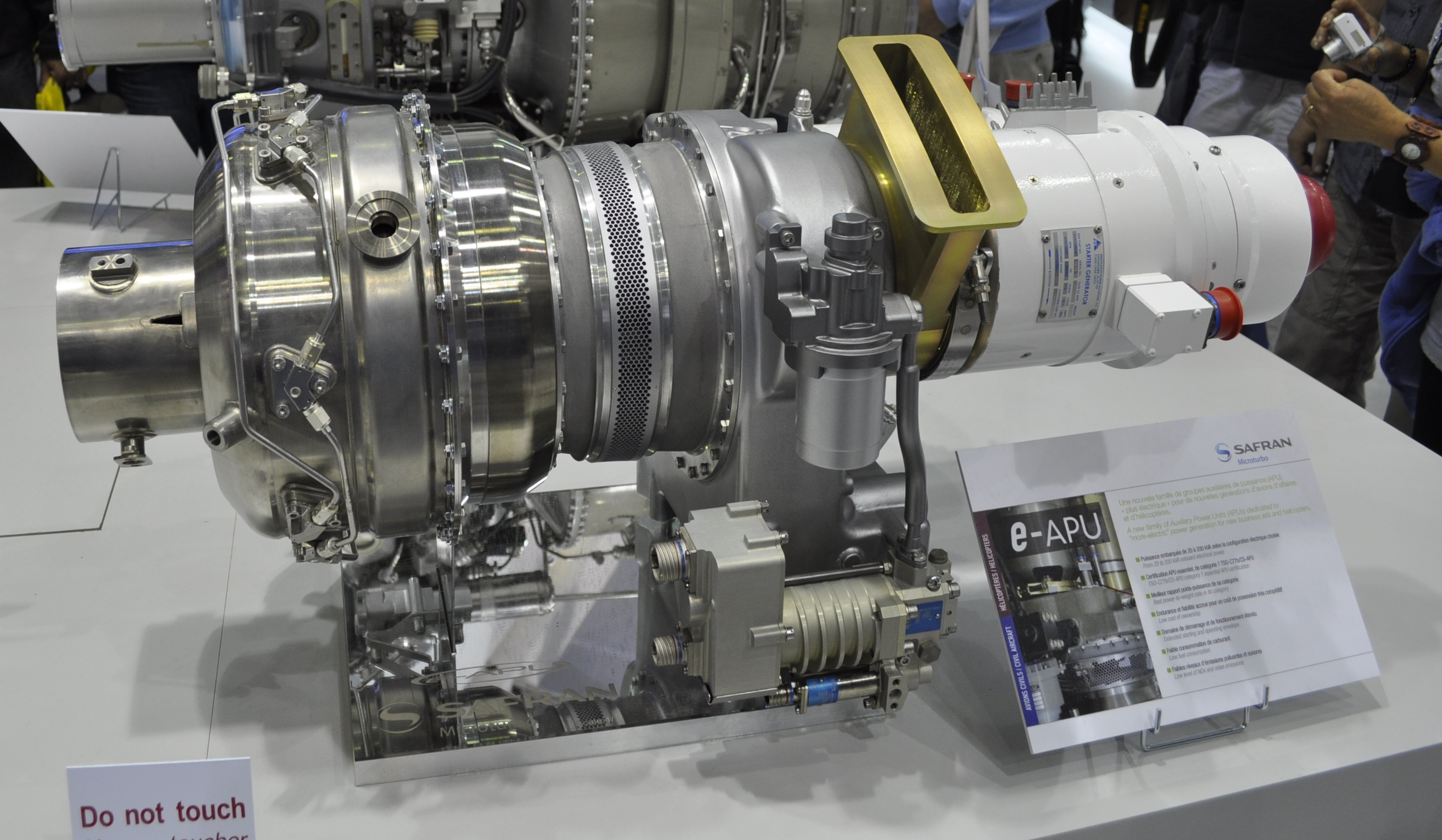 e-APU : Auxiliary Power Units Safran Microturbo (now Safran Power Units) Paris Air show 2011, Safran stand